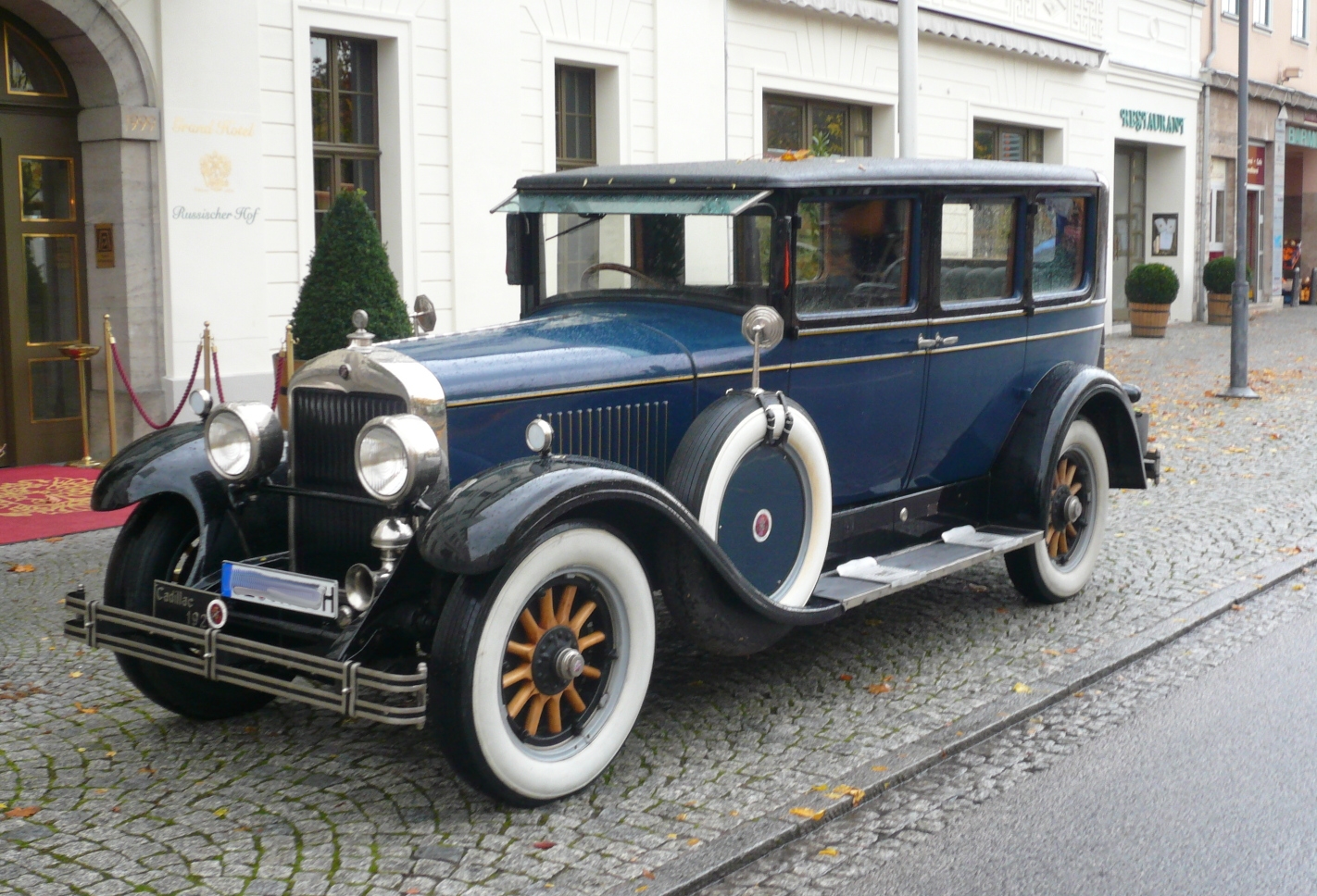 Cadillac Modell 314 -Sedan- Built:1926 seen at Weimar, Germany